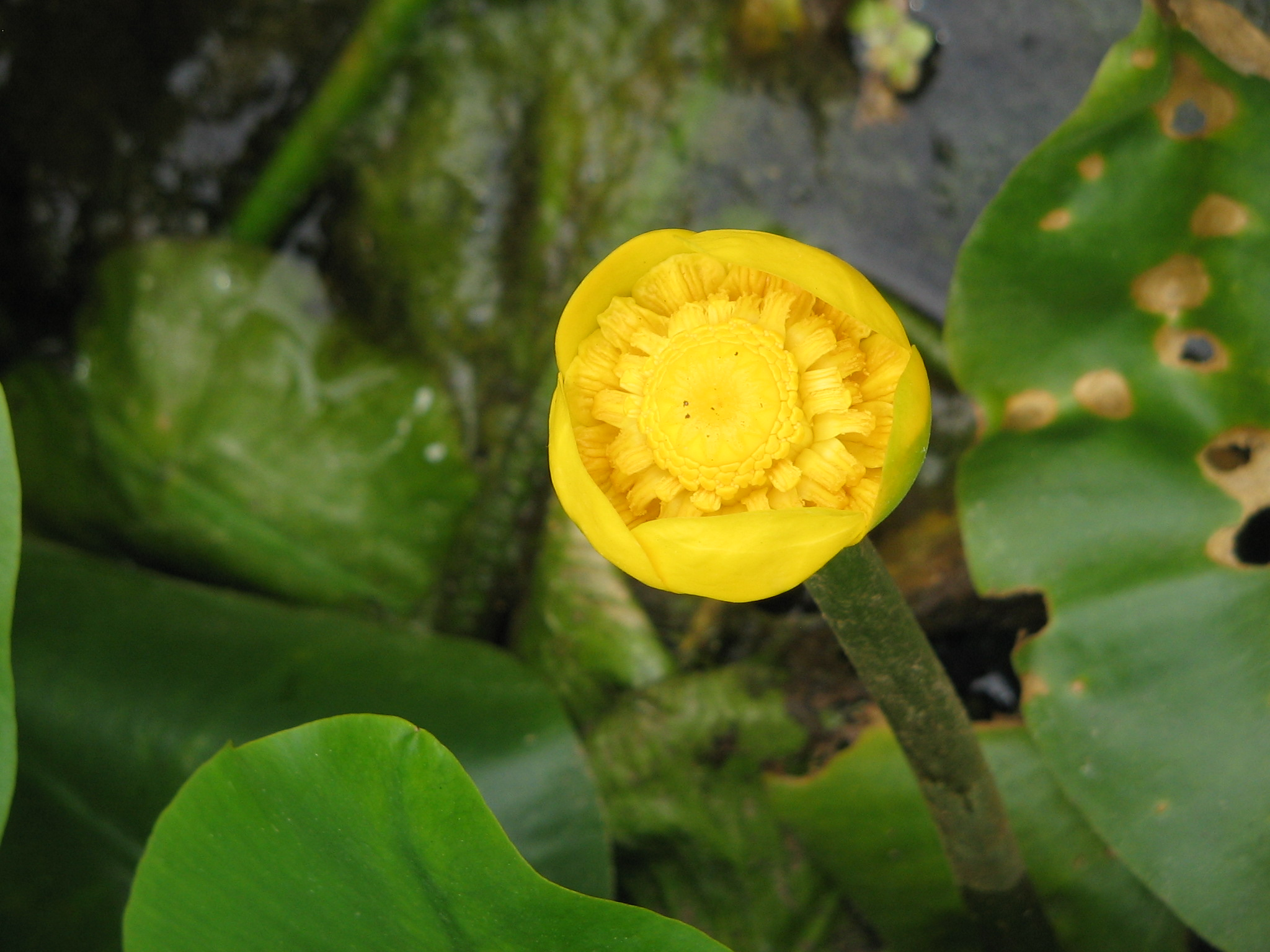 Nuphar lutea close-up